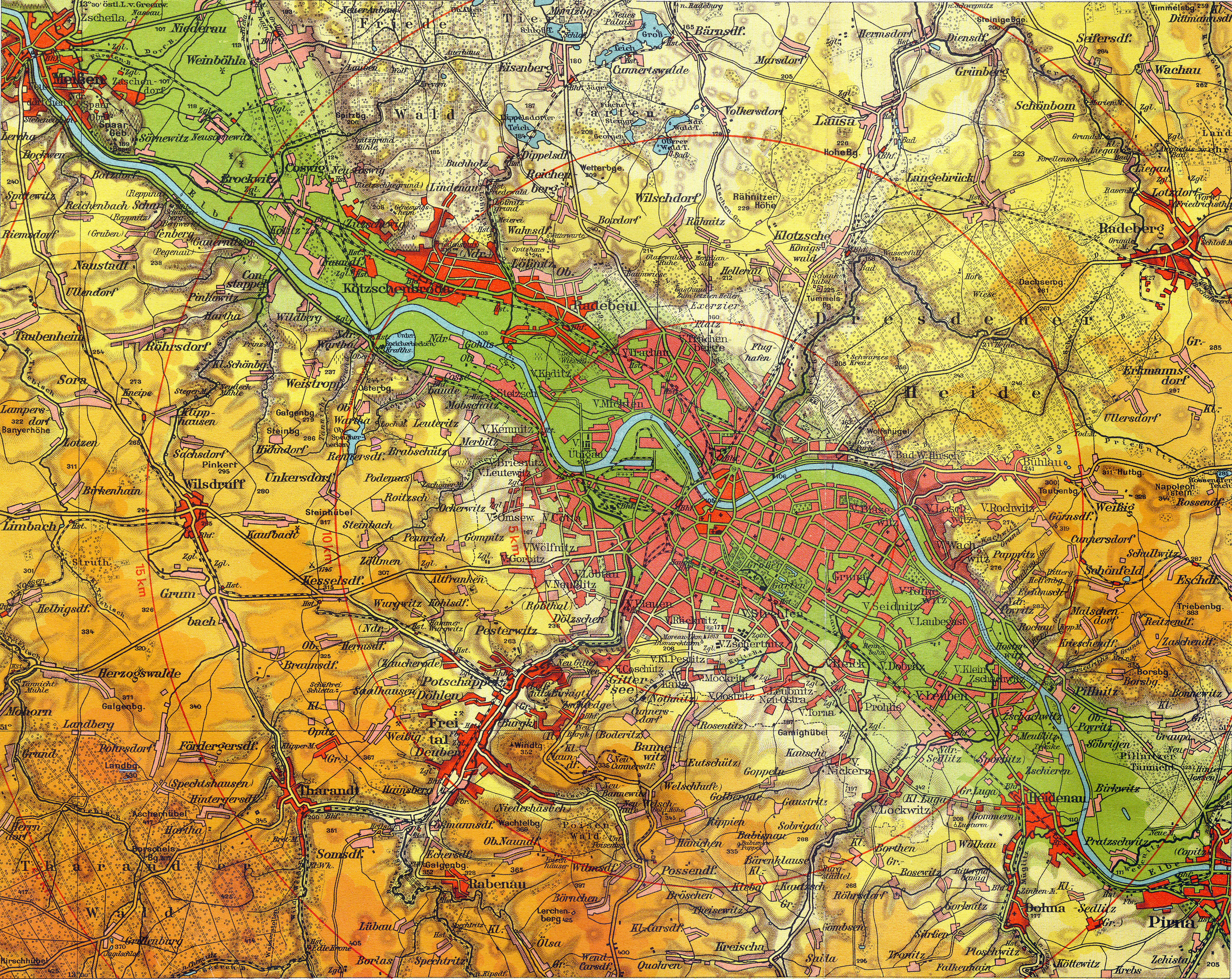 Dresden and hinterland (altitudes: green=0-120m, light green=120-150m, light yellow=150-200m, yellow=200-250m, light orange=250-300m, orange=300-350m, light brown=350-400m, brown=more than 400m)